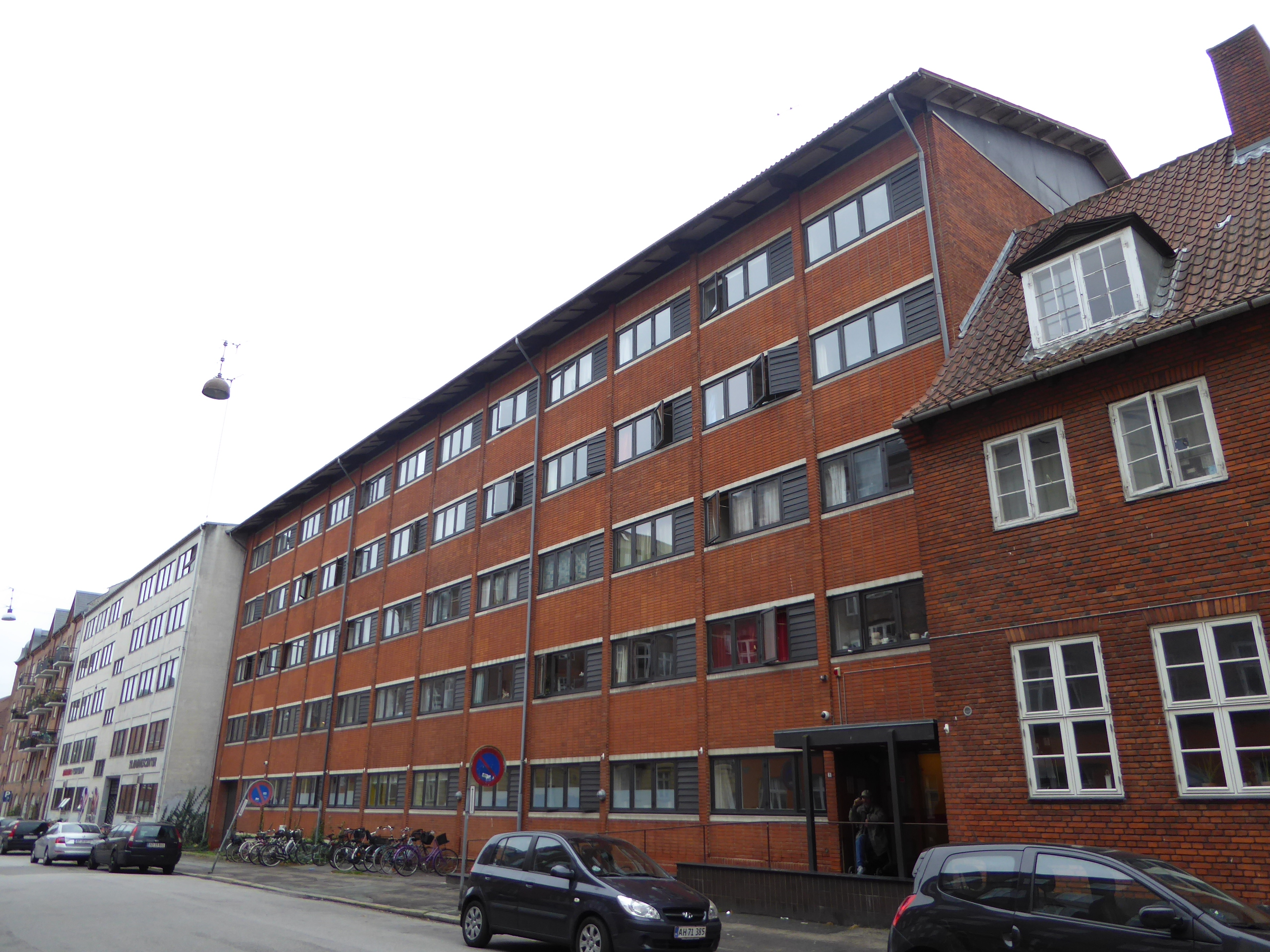 The social institution Arbejde Adlers Hus at Thorsgade in Nørrebro in Copenhagen.